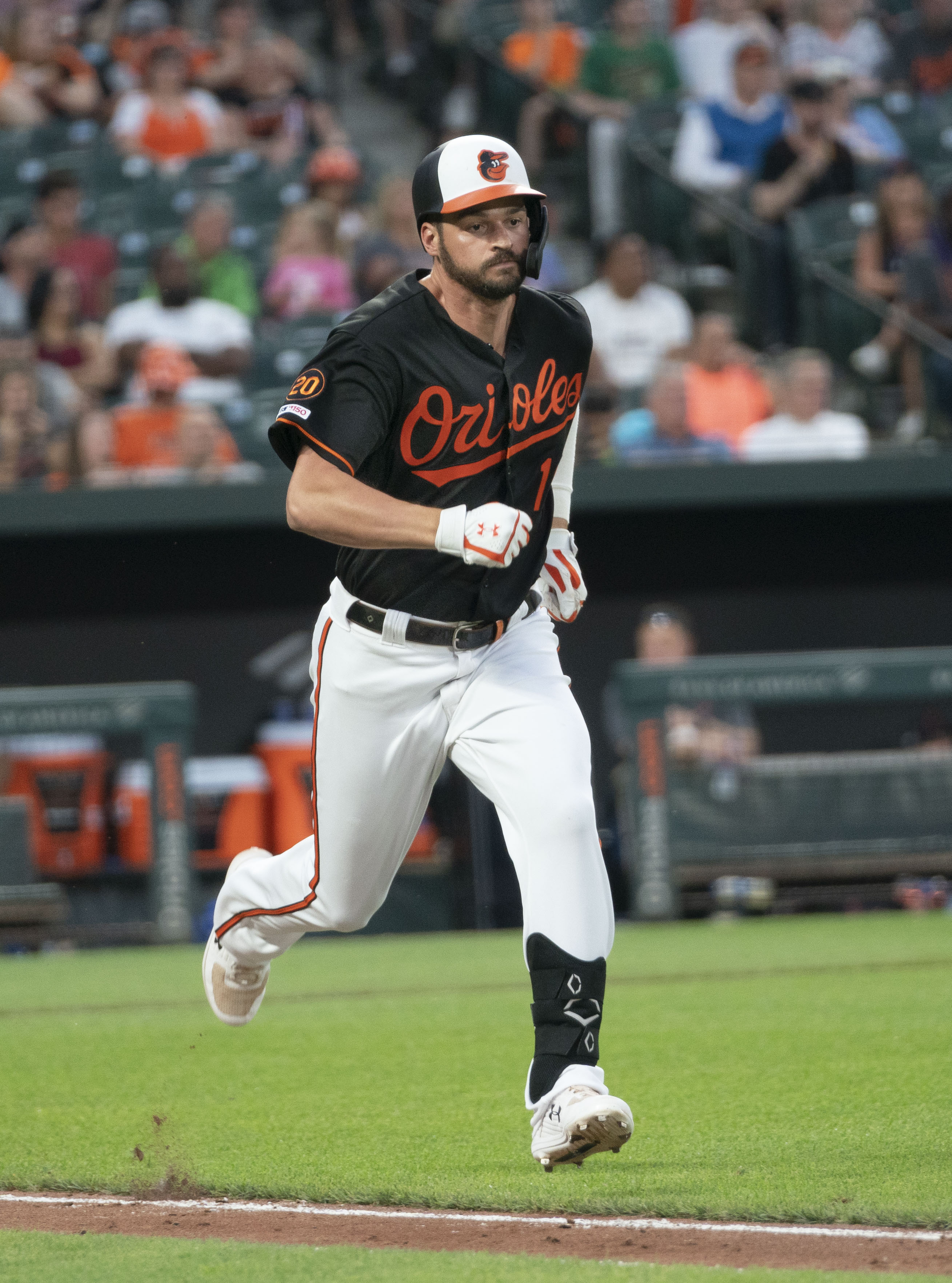 Indians at Orioles 6/28/19